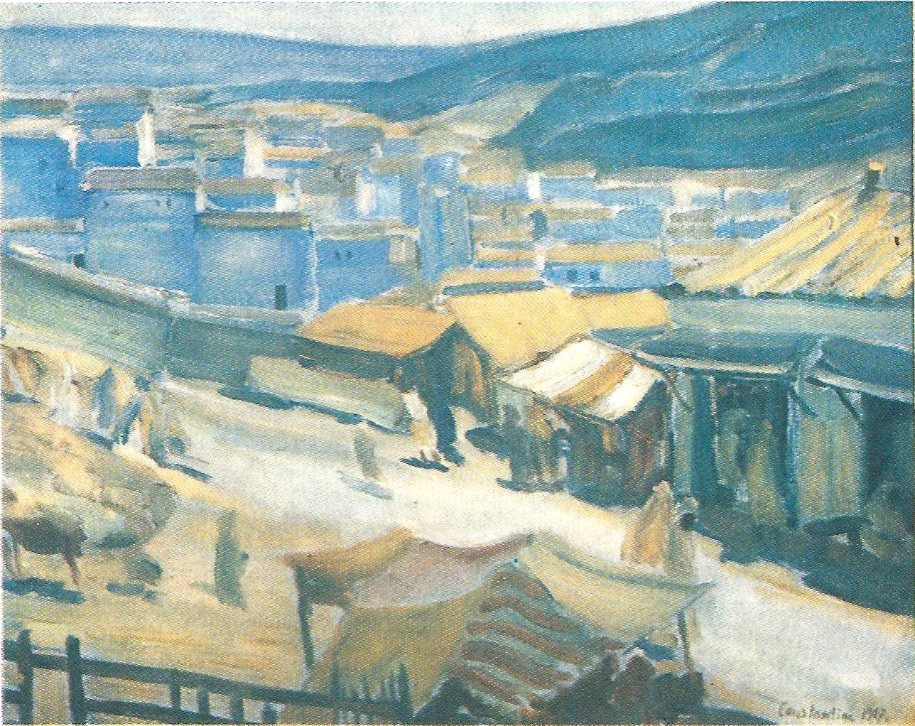 African village oil on canvas, 37 x 49 cm The painting is located in the State Russian Museum in St. Petersburg, Russia.